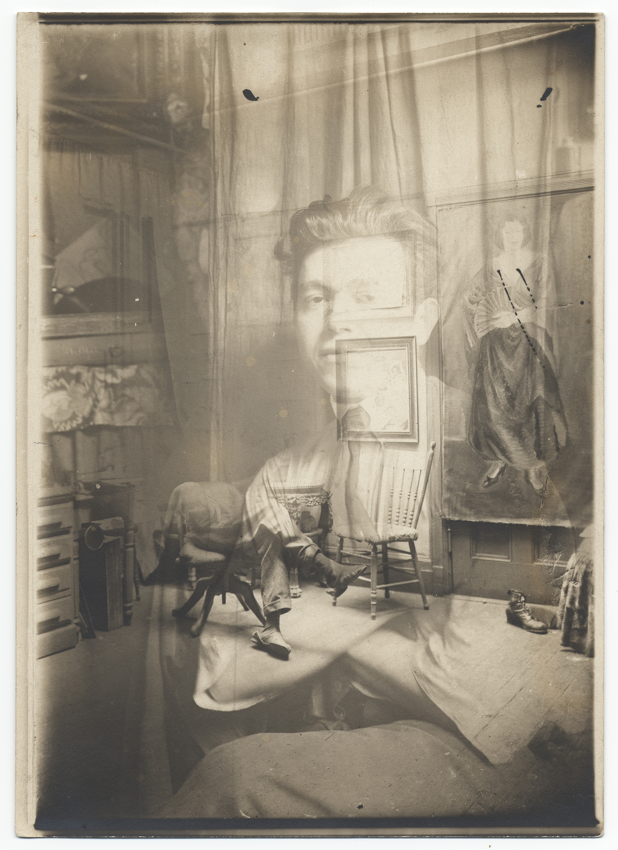 Description: Double exposed photo of Matulka in his studio. Creator/Photographer: Unidentified photographer Medium: Black and white photographic print Dimensions: 18 cm x 13 cm Date: c. 1920 Persistent URL: Repository: Archives of American Art Collection: Jan Matulka Papers, 1923-1960 Accession number: aaa_matujan_4993